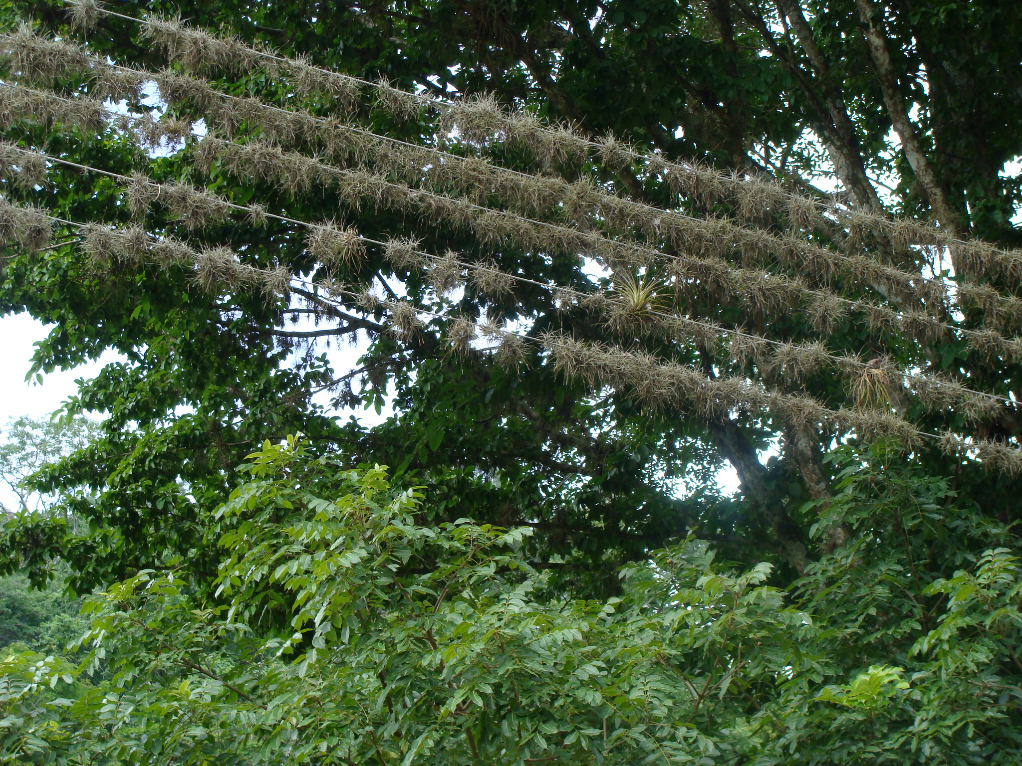 Epiphytes on power cables near San Juan de los Morros, Venezuela